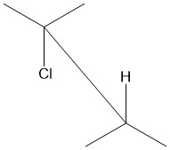 Sawhorse projection showing Cl and H anti-planar